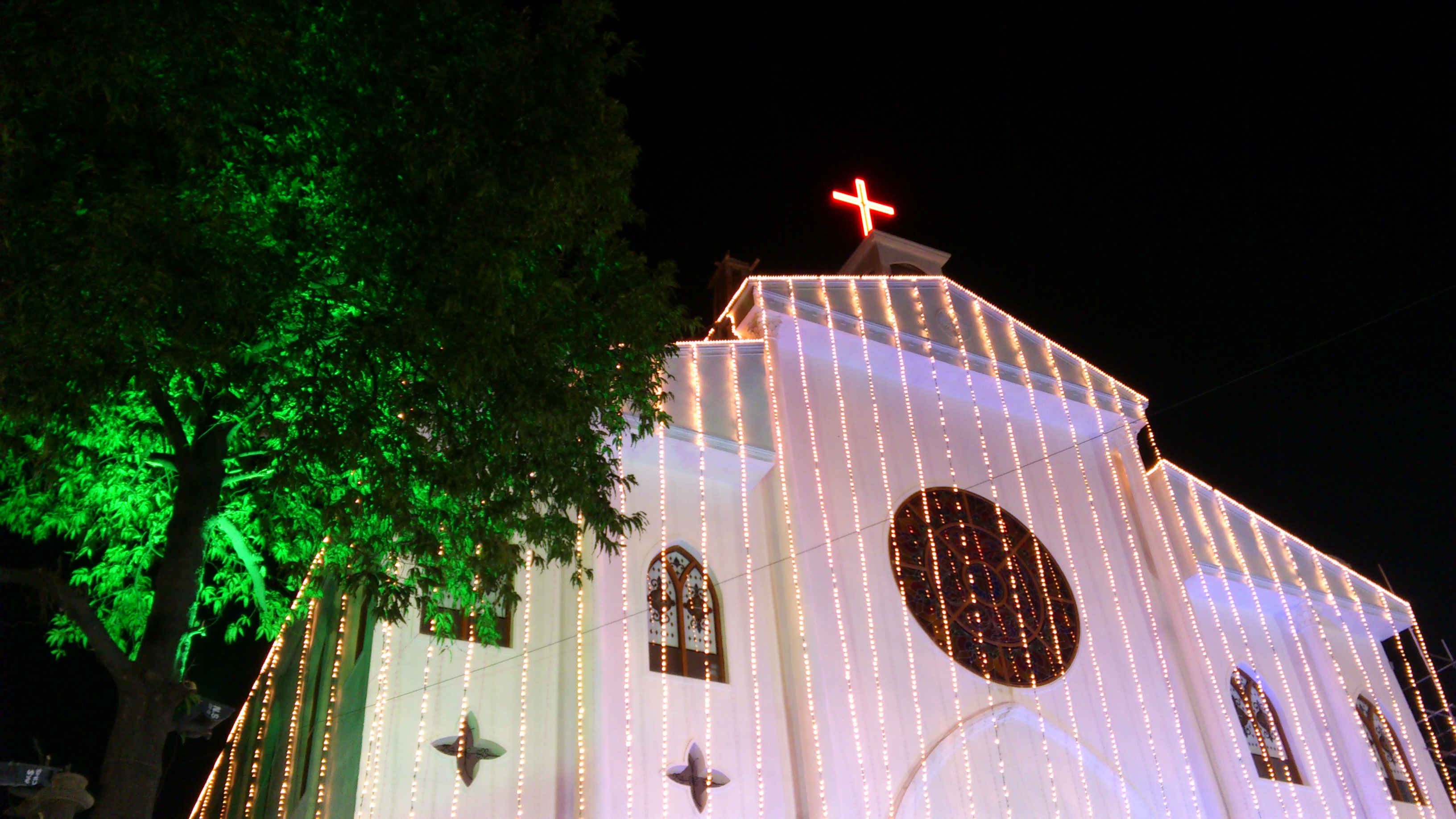 Front view of C.S.I St. Thomas Church, Saidapet, Chennai, IN, re-constructed on 2012